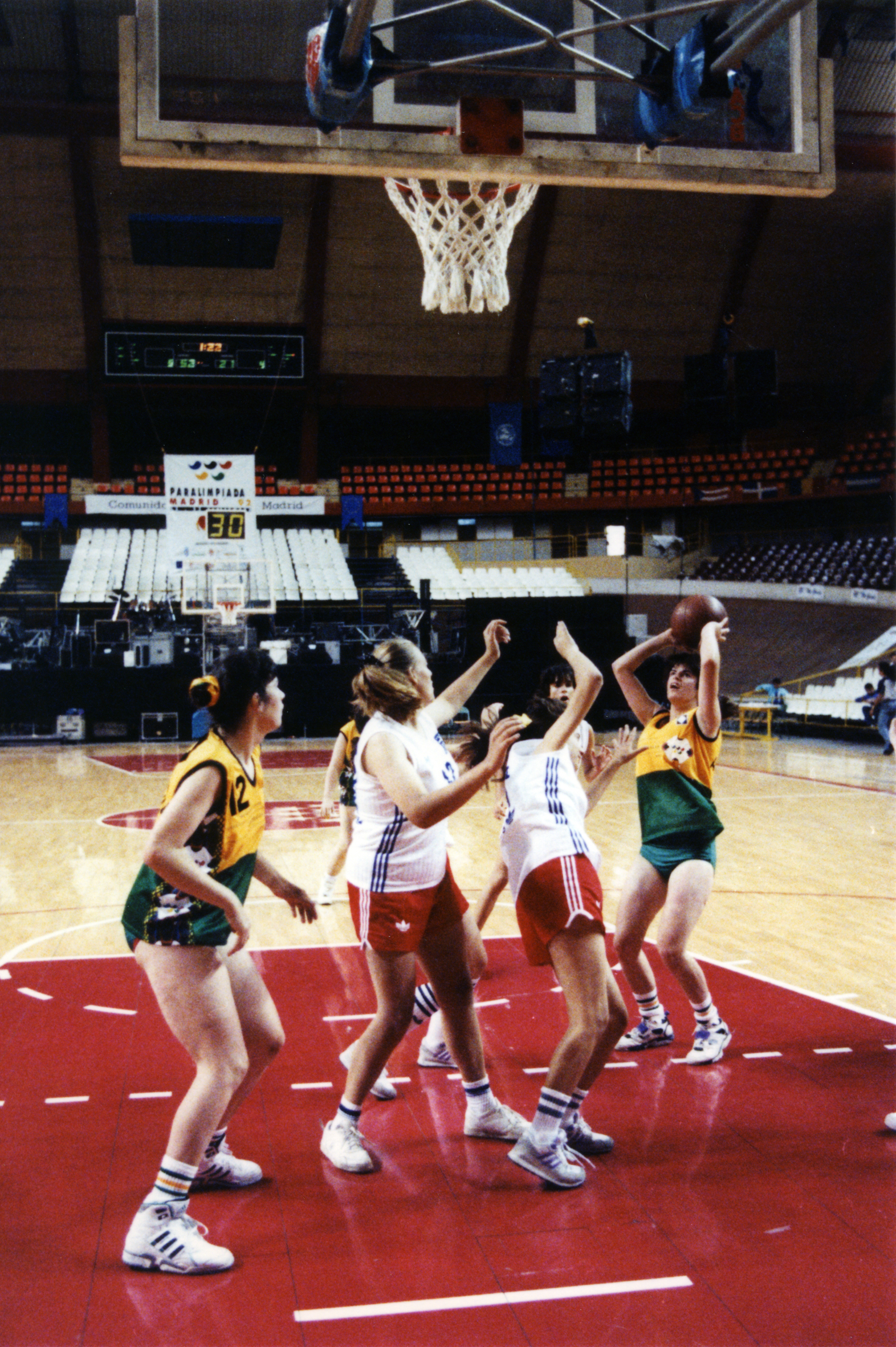 Annette Kelly (L) watches as Donna Burns shoots when the Australian "Pearls" play Great Britain at the 1992 "Paralympic Games for Persons with Mental Handicap" in Madrid.